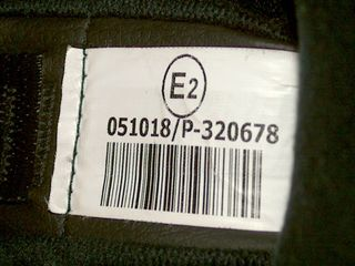 French homologation label for motorbike helmet